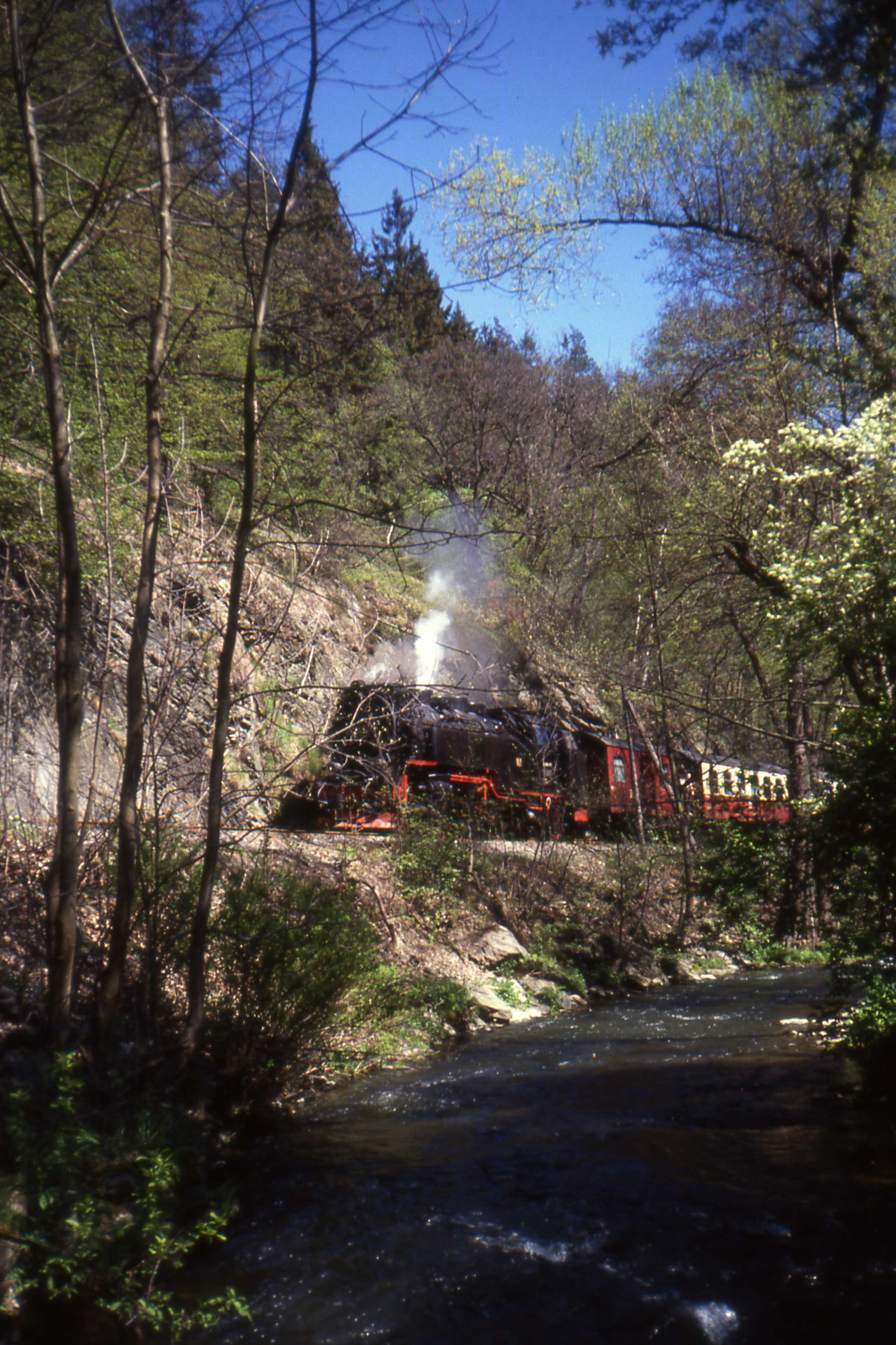 The eponymous Selke river with the narrow gauge steam railway between Gernrode and Stiege running alongside.